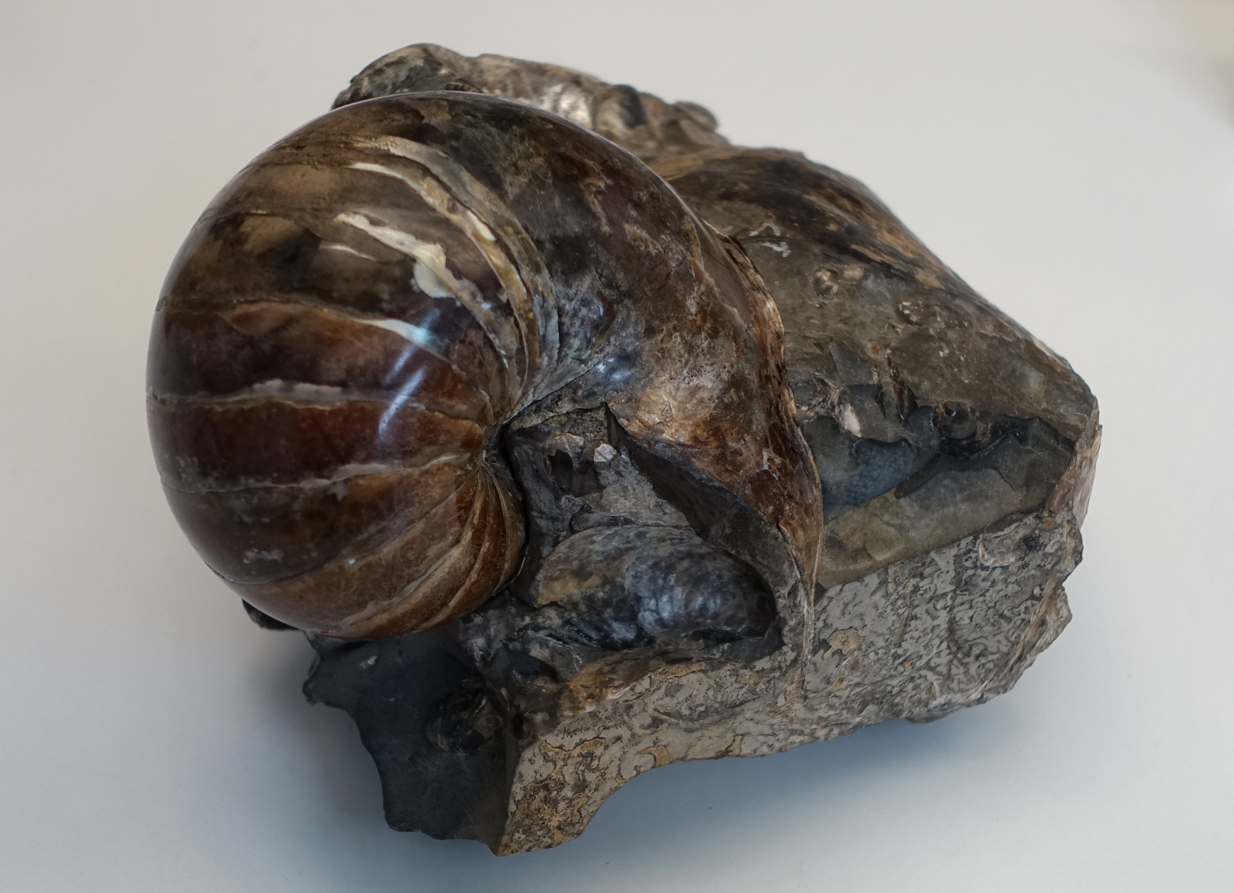 Exhibit in the Naturhistorisches Museum Nürnberg - Nuremberg, Germany.